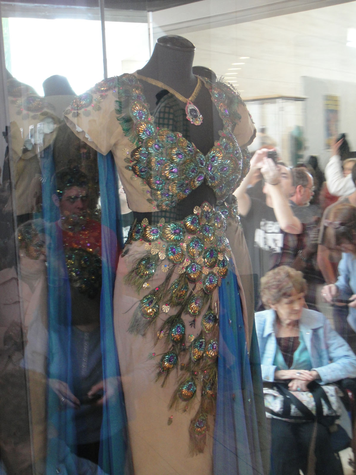 Hedy Lamarr "Delilah" peacock gown from the 1949 film Samson and Delilah at the Debbie Reynolds Auction Breaks Up Historic Hollywood Collection (The Paley Center for Media in Beverly Hills, Los Angeles, CA, USA).